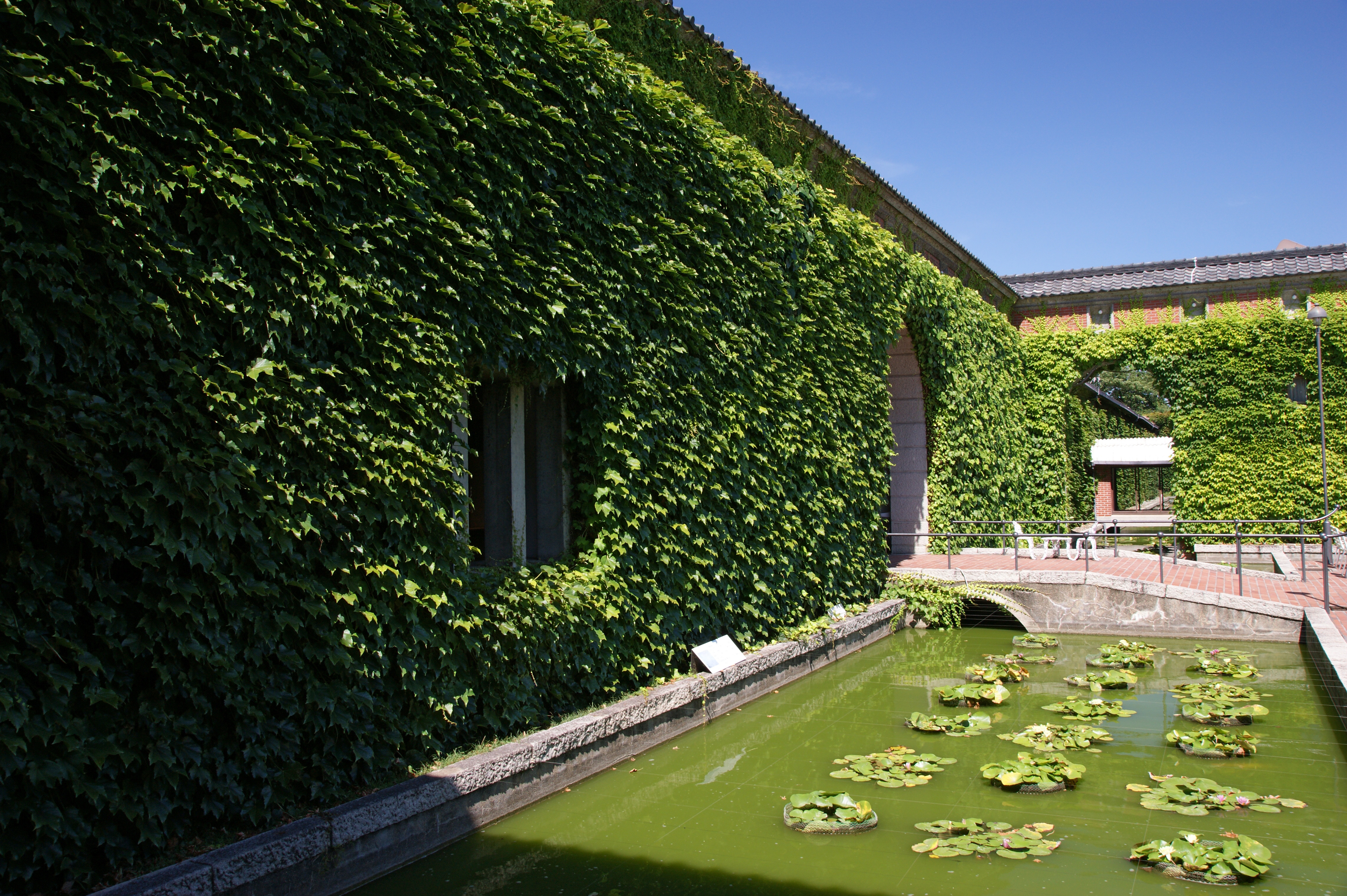 Kurashiki Ivy Square in Kurashiki, Okayama prefecture, Japan